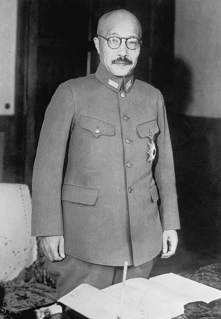 Hideki Tojo (1884–1948), photo taken before end of World War II. Public Domain as pre-1946 work.